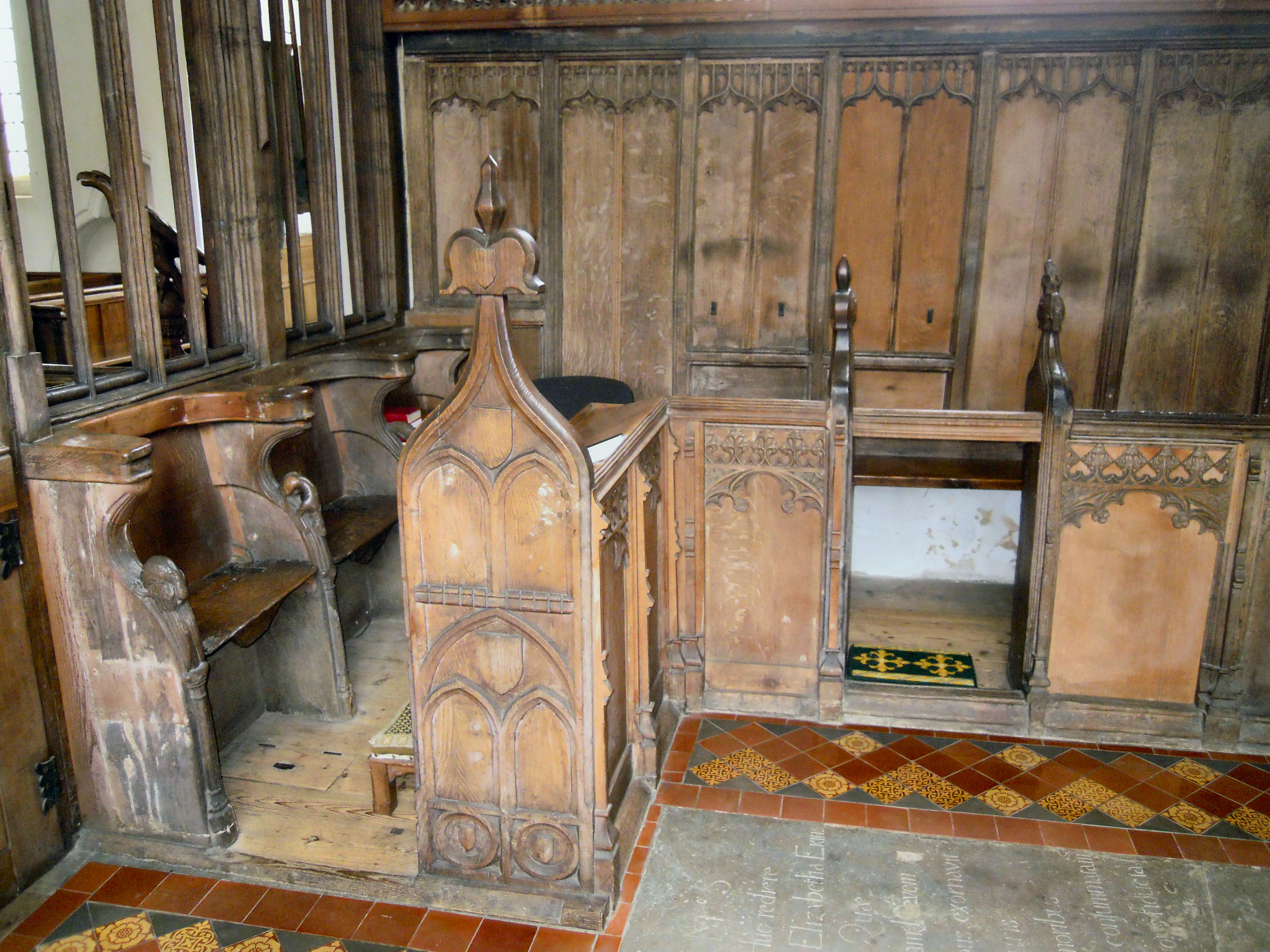 The seats in the chancel in the Church of St Mary the Virgin in Gamlingay in Cambridgeshire date to about 1442